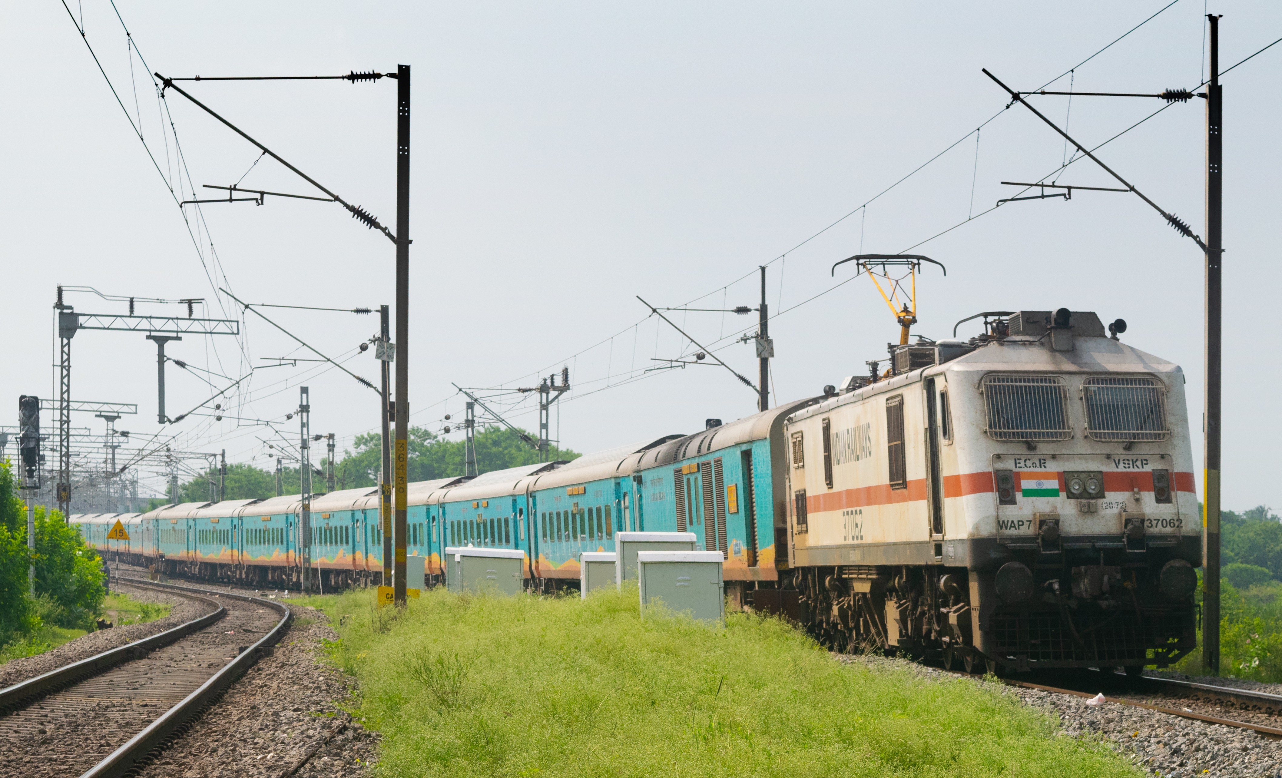 Jammu Tawi bound Humsafar Express leaving Kazipet Junction, hauled by a VSKP WAP7